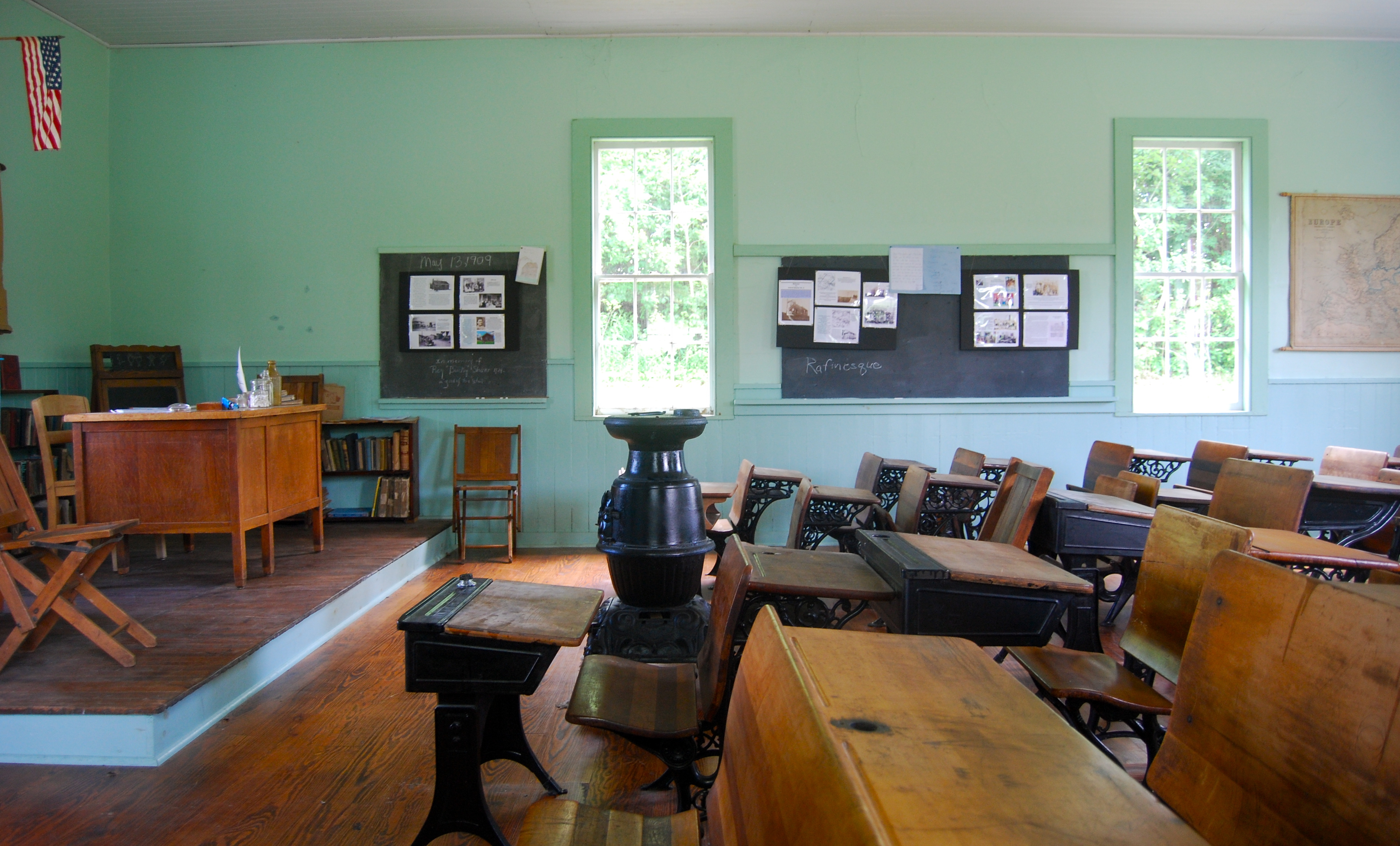 Interior of the Little Red Schoolhouse in Brunswick, New York, United States